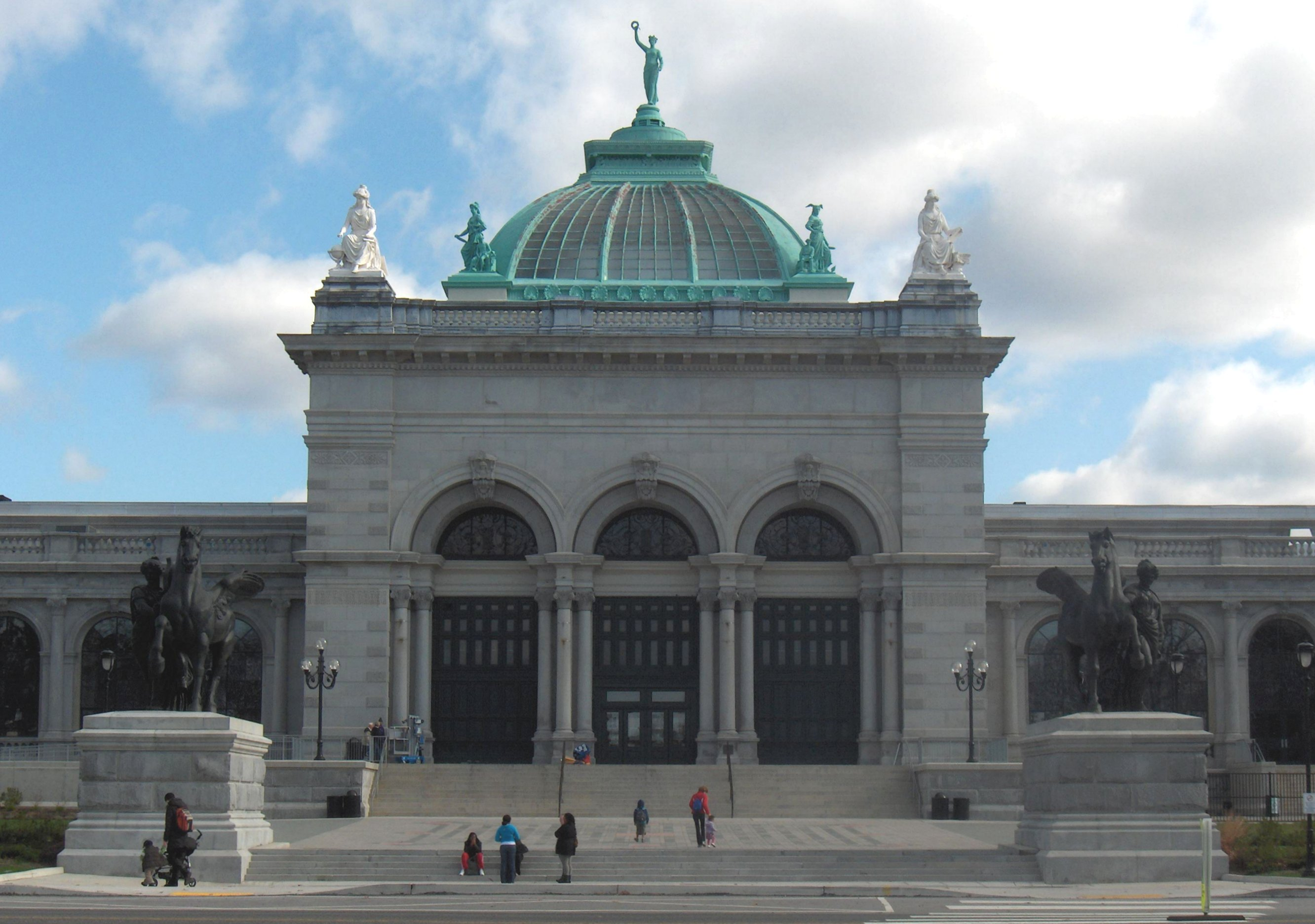 Memorial Hall, 4231 Avenue of the Republic, Philadelphia, PA 19131, Centennial Exposition, 1876, now home to the Please Touch Museum. View from south of the Avenue of the Republic, looking north